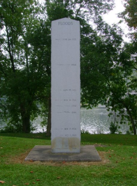 This was taken with a Sony CyberShot in Bloomsburg, PA, USA.